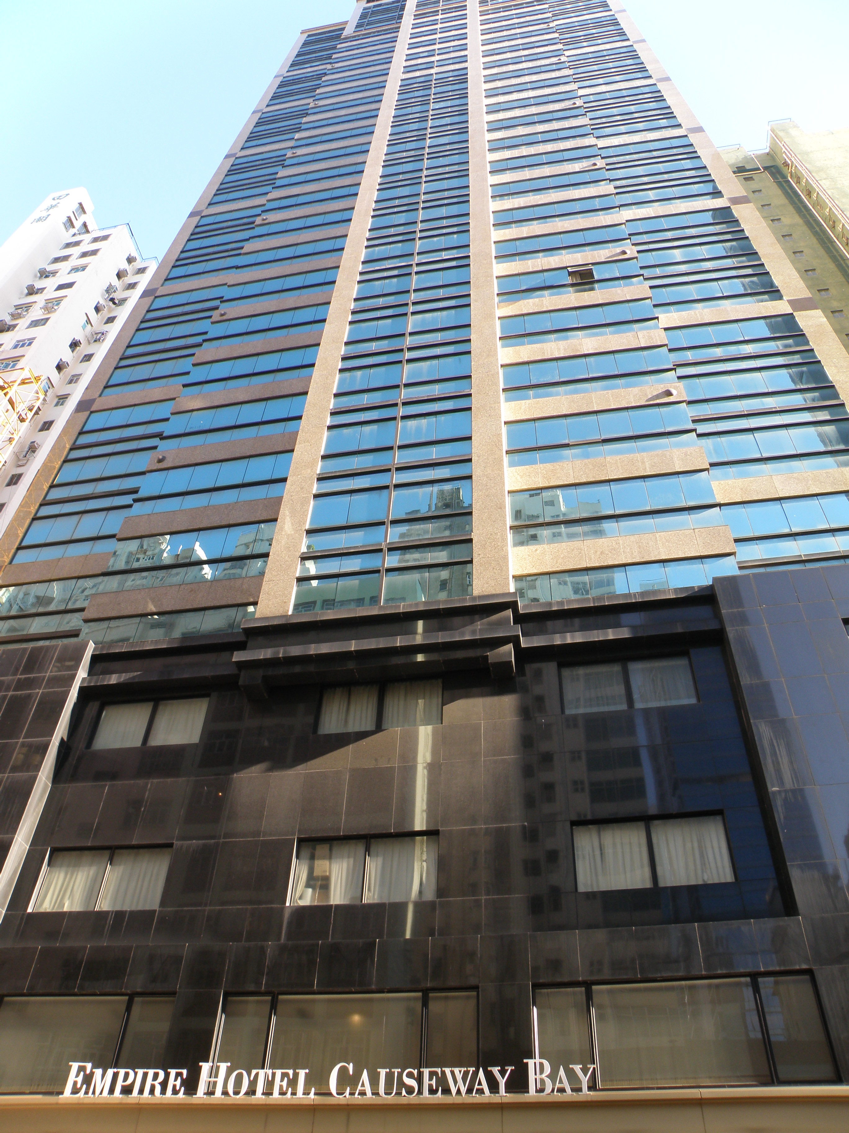 Empire Hotel Causeway Bay in Tin Hau, Hong Kong.